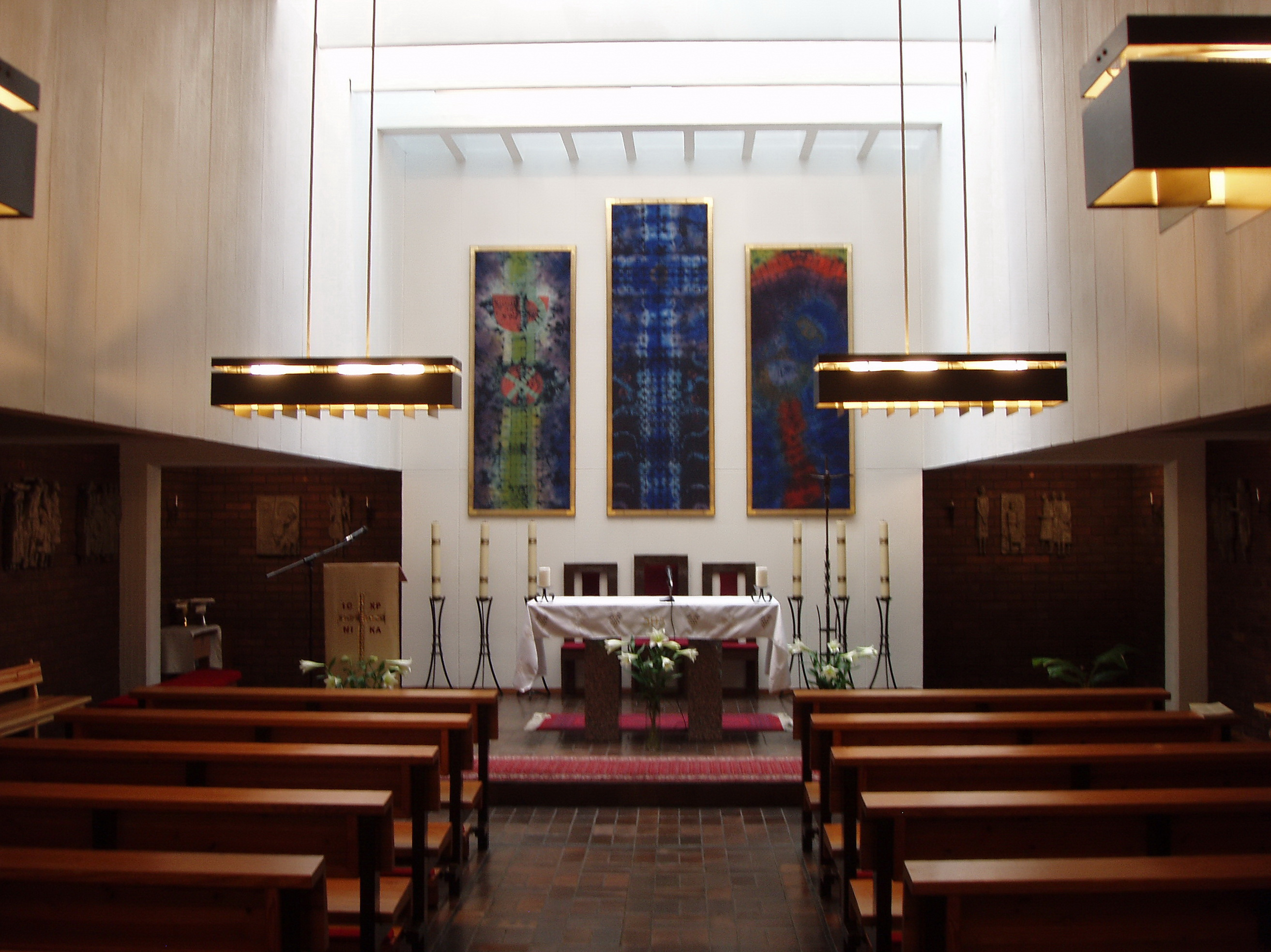 Altar of Holy Cross Roman Catholic Church in Tampere, Finland